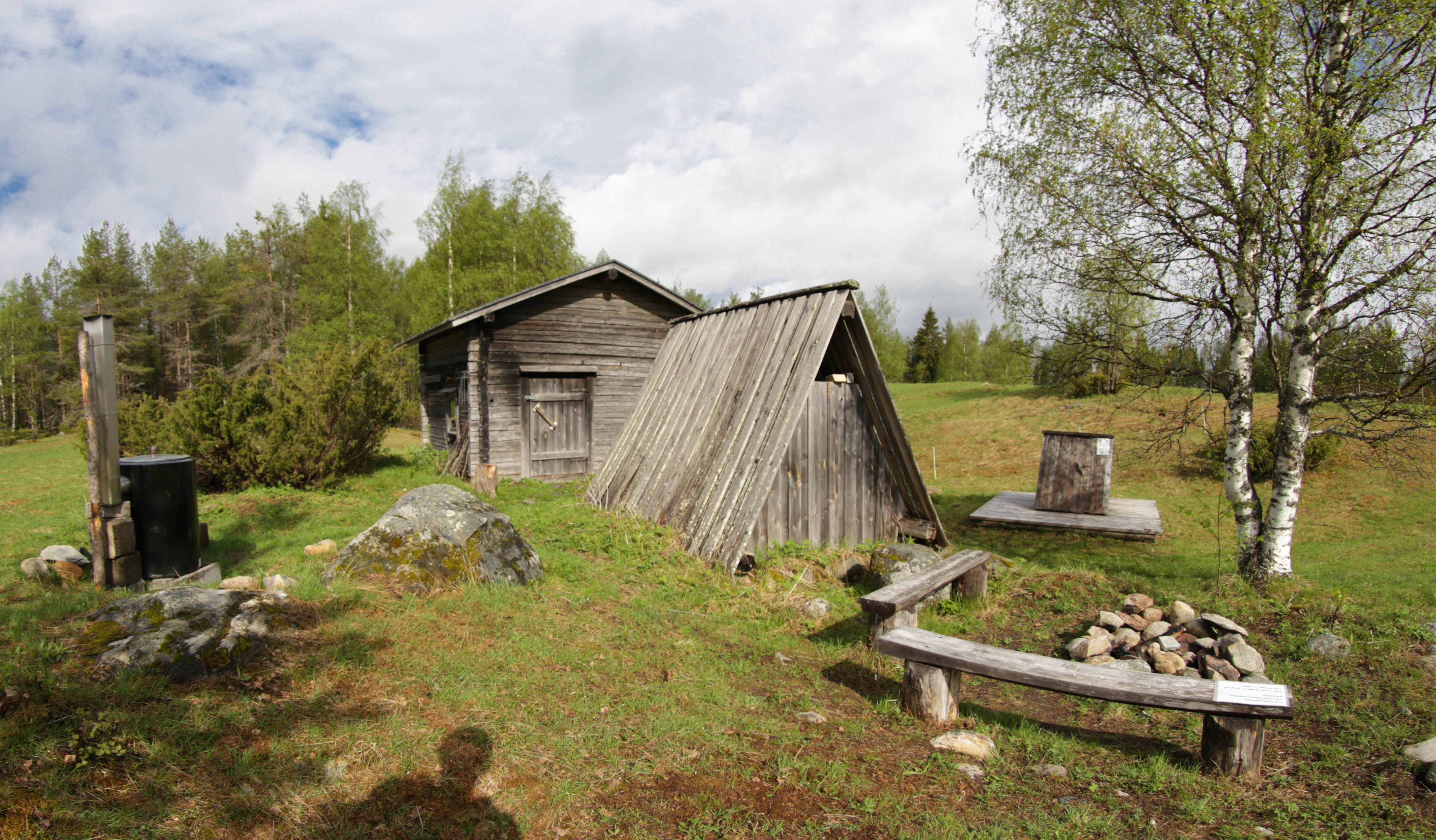 Buildings at the yard of Levävaara farm. Elimyssalo nature reserve, Kuhmo, Finland